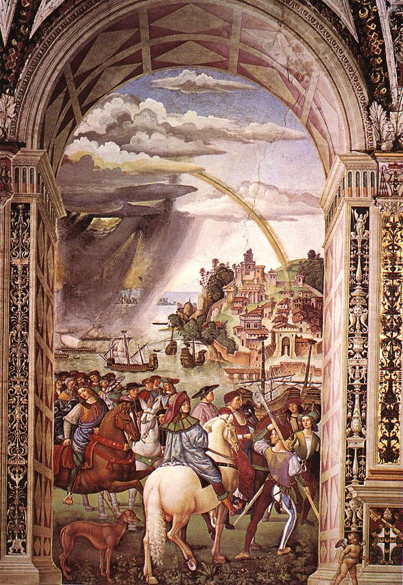 PINTURICCHIO Aeneas Piccolomini Leaves for the Council of Basle Fresco Piccolomini Library, Duomo, Siena